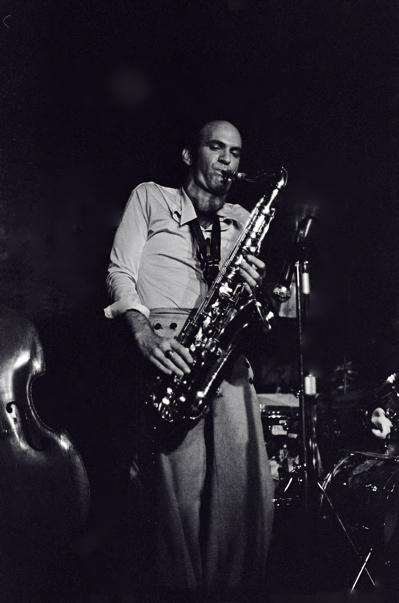 Dave Liebman Storyville - NYC - 1975?